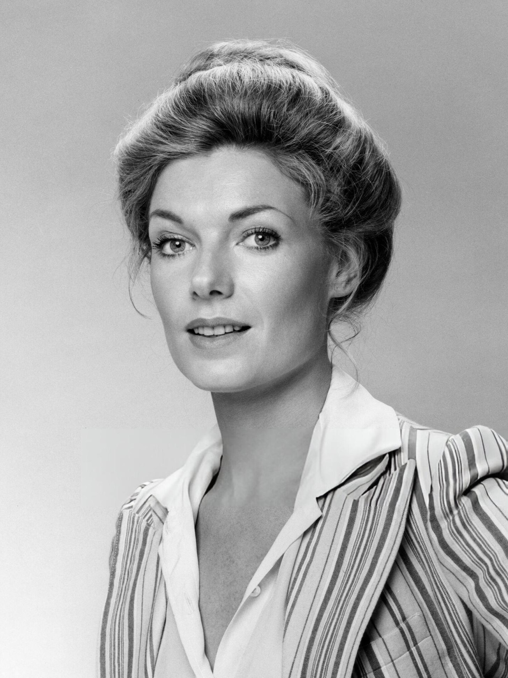 Photo of Susan Sullivan from the television miniseries Rich Man, Poor Man, Book II.